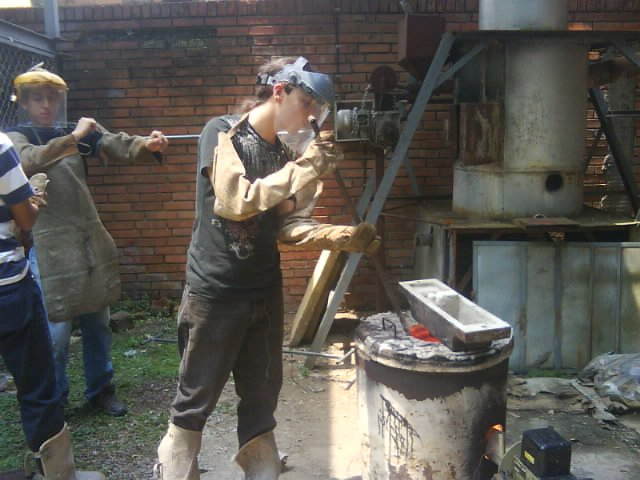 Casting Metal, in the photo appears the Wikipedist Remux